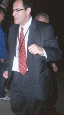 Andy Buckley at The Office Convention in Scranton, PA on October 27, 2007.